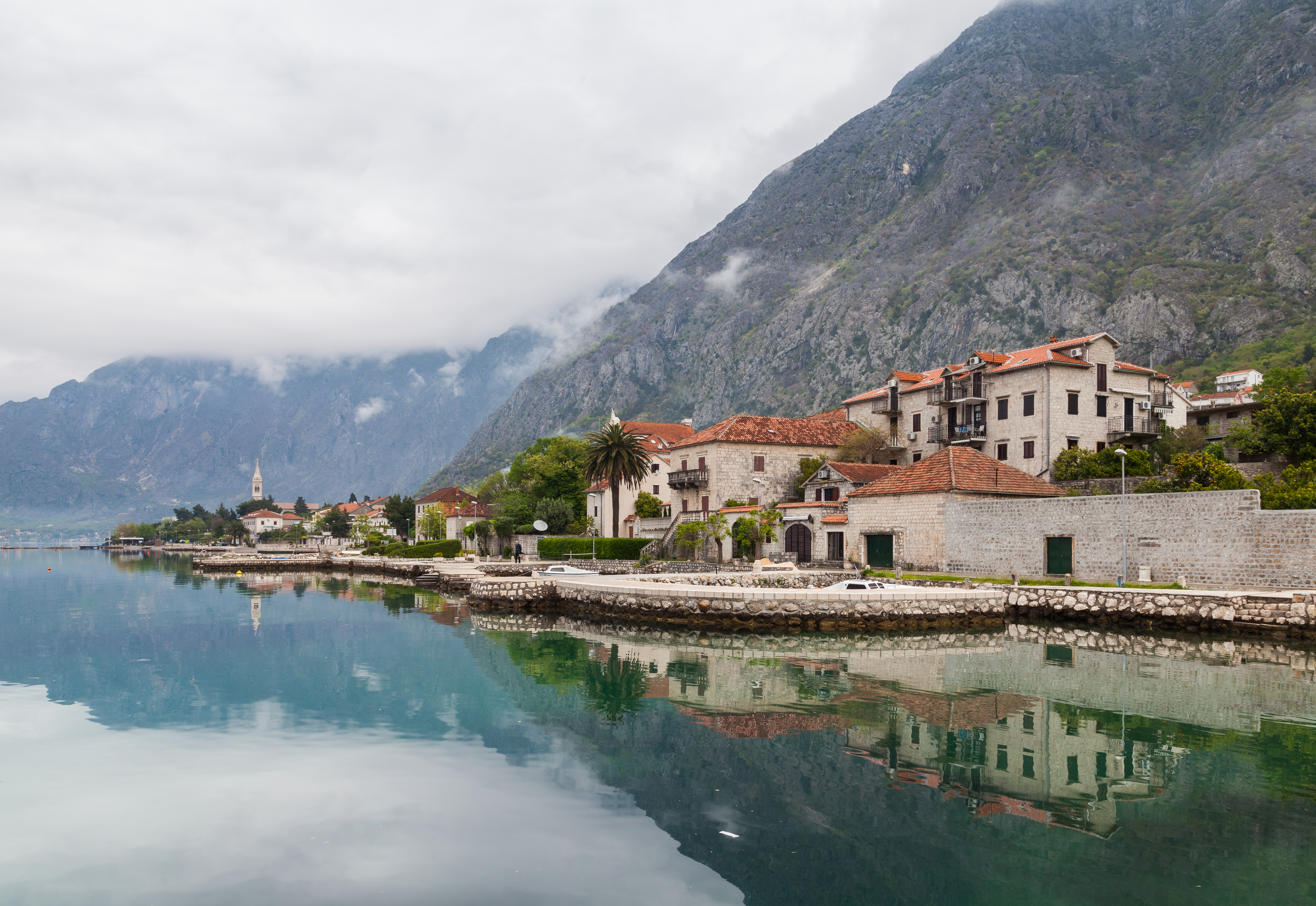 Dobrota, Bay of Kotor, Montenegro